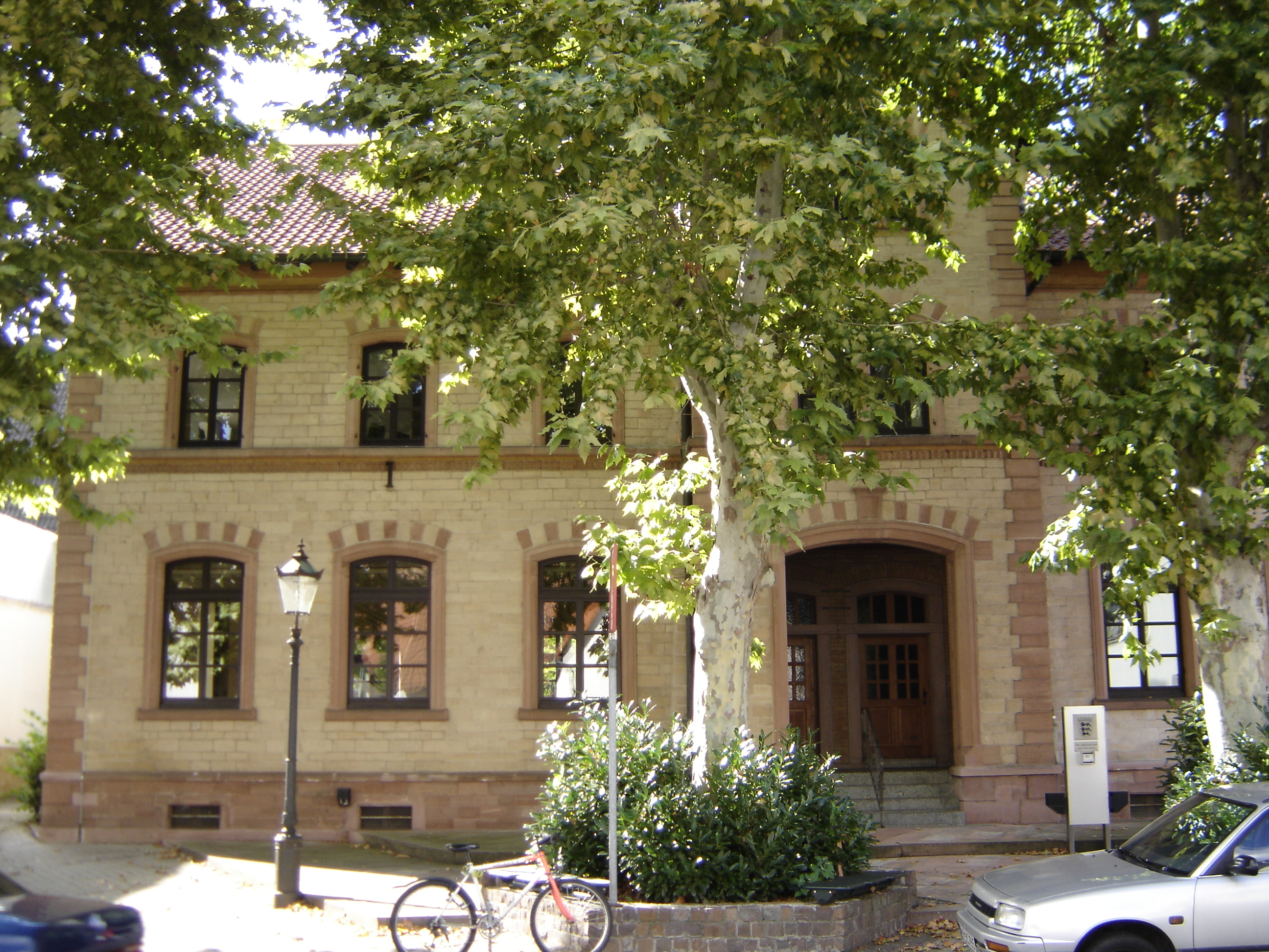 Old school building, Heddesheim, Germany